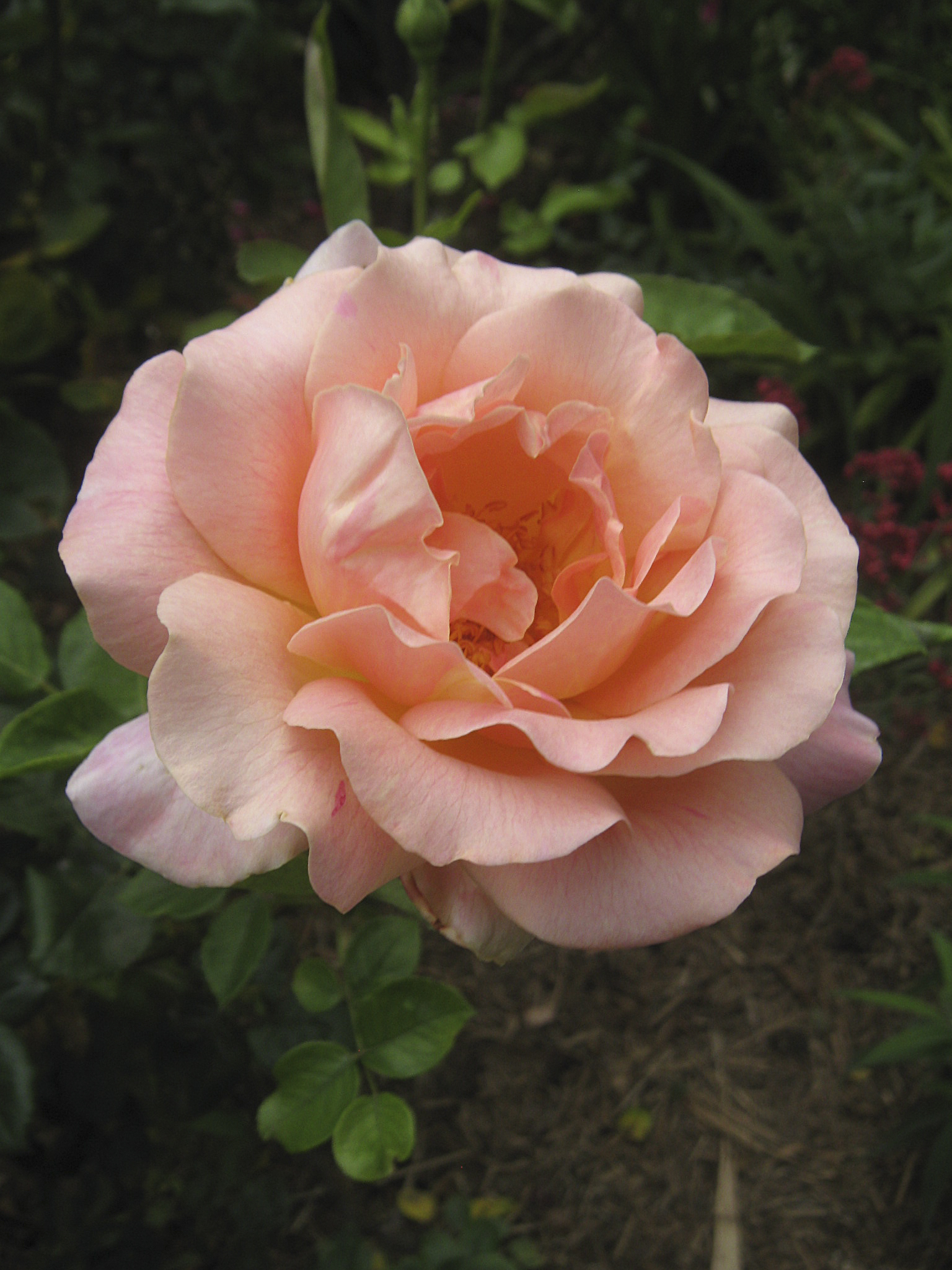 Rose 'Peggy Bell', Hybrid Tea by Alister Clark 1928; Photographed in the Alister Clark Memorial Rose Garden, Bulla, Victoria